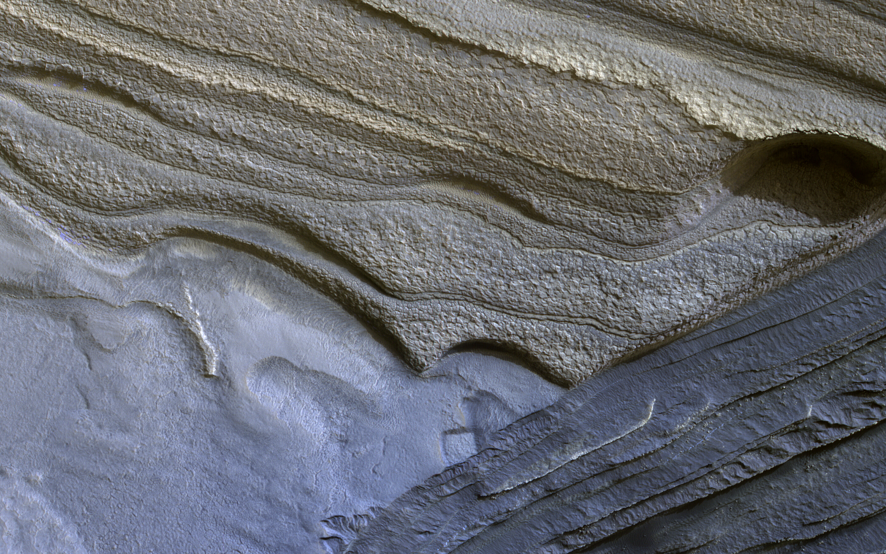 The North Polar layered deposits are a 3-kilometer thick stack of dusty water ice layers that are about 1000 kilometers across. The layers record information about climate stretching back a few million years into Martian history. In many locations erosion has created scarps and troughs that expose this layering. The tan colored layers are the dusty water ice of the polar layered deposits; however a section of bluish layers is visible below them. These bluish layers contain sand-sized rock fragments that likely formed a large polar dunefield before the overlying dusty ice was deposited. The lack of a polar ice cap in this past epoch attests to the variability of the Martian climate, which undergoes larger changes over time than that of the Earth. The map is projected here at a scale of 50 centimeters (19.6 inches) per pixel. [The original image scale is 63.6 centimeters (25 inches) per pixel (with 2 x 2 binning); objects on the order of 191 centimeters (75.2 inches) across are resolved.] North is up. The University of Arizona, Tucson, operates HiRISE, which was built by Ball Aerospace & Technologies Corp., Boulder, Colo. NASA's Jet Propulsion Laboratory, a division of Caltech in Pasadena, California, manages the Mars Reconnaissance Orbiter Project for NASA's Science Mission Directorate, Washington.